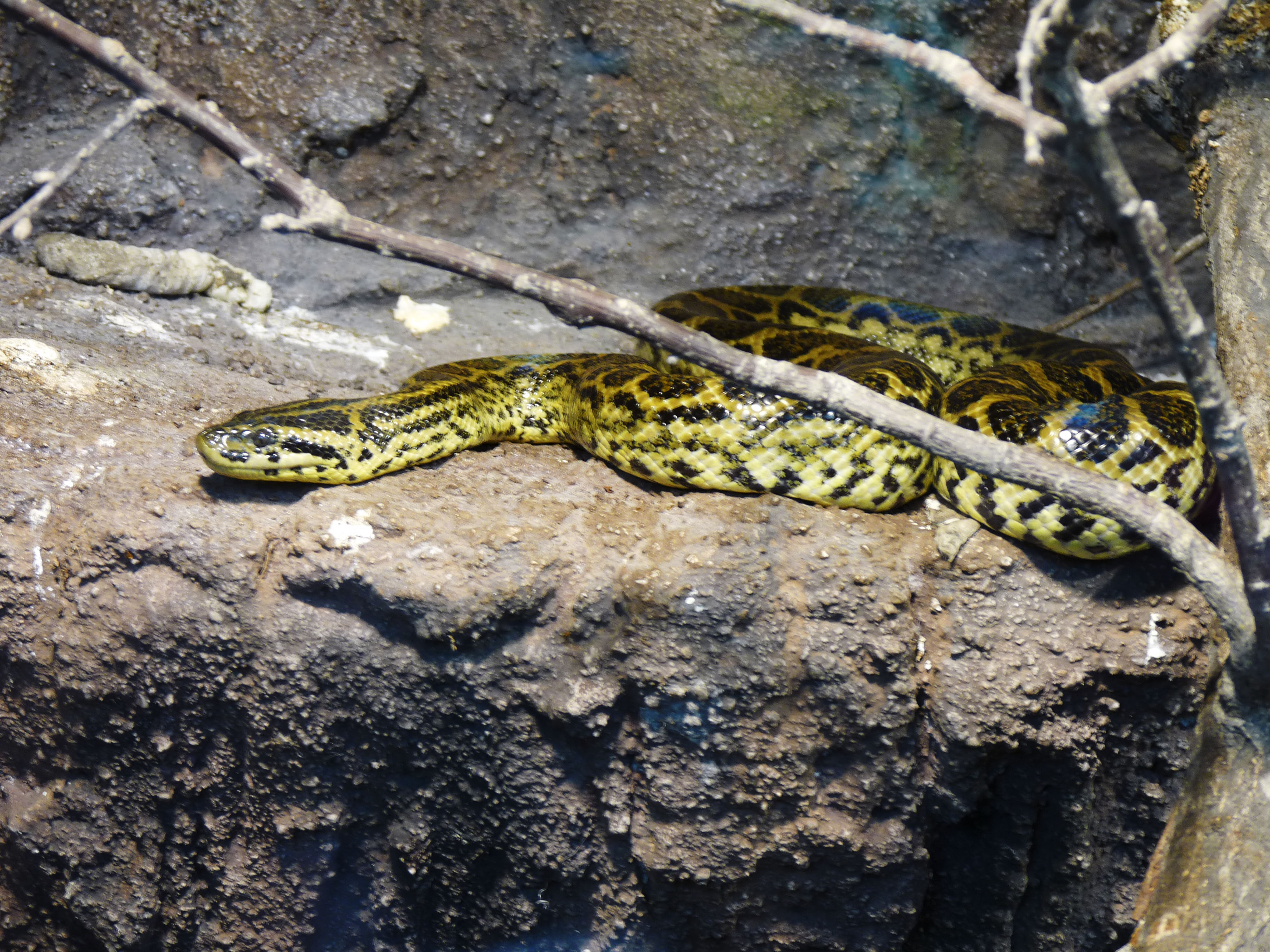 Eunectes notaeus in the Matamata House in the Zoo Ohrada, Hluboká nad Vltavou, South Bohemian Region, Czech Republic.